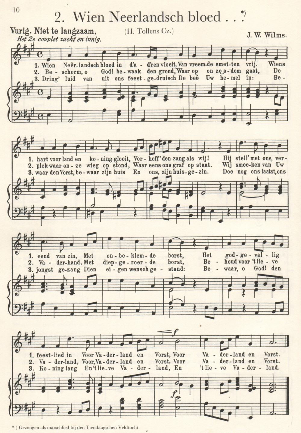 Sheet music of the former Dutch anthem Wien Neerlands bloed. Words by H. Tollens Czn, music by J.W. Wilms